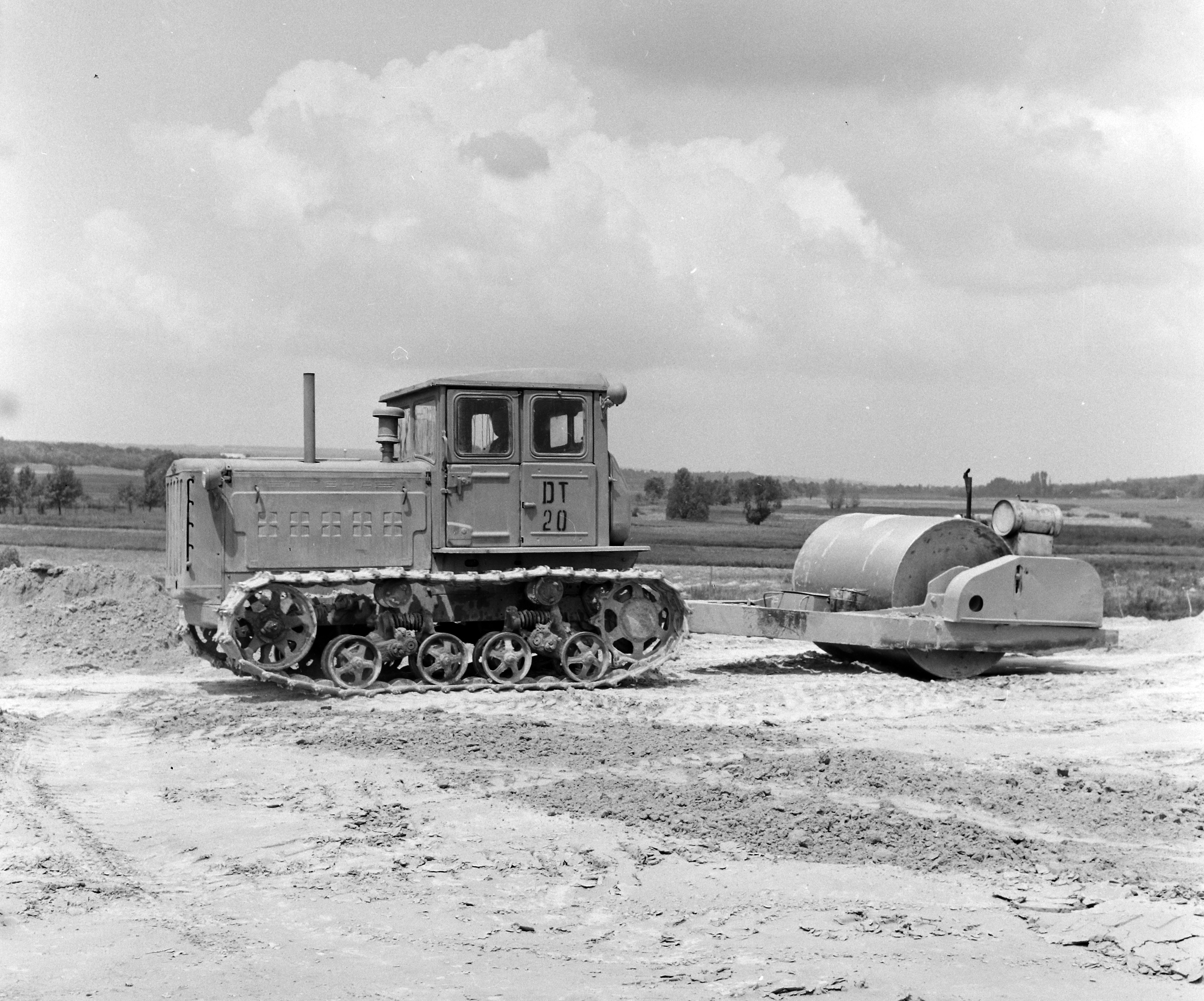 DT-54A tractor Location: Hungary Tags: road construction, roller